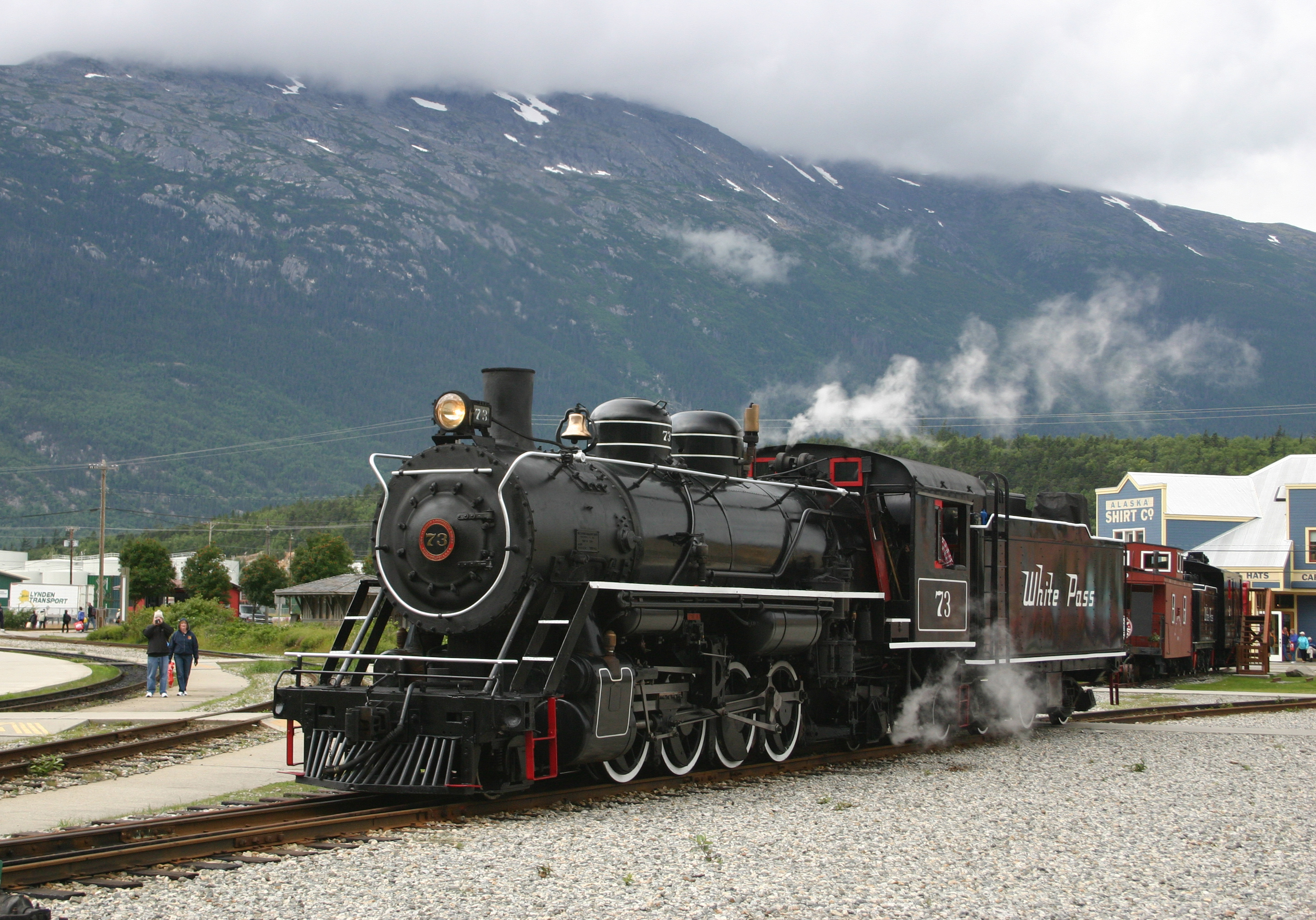 White Pass & Yukon Route narrow gauge locomotive #73